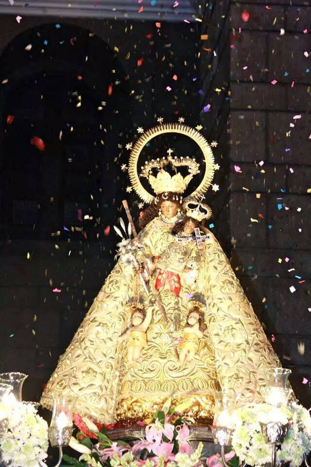 fiesta 2014